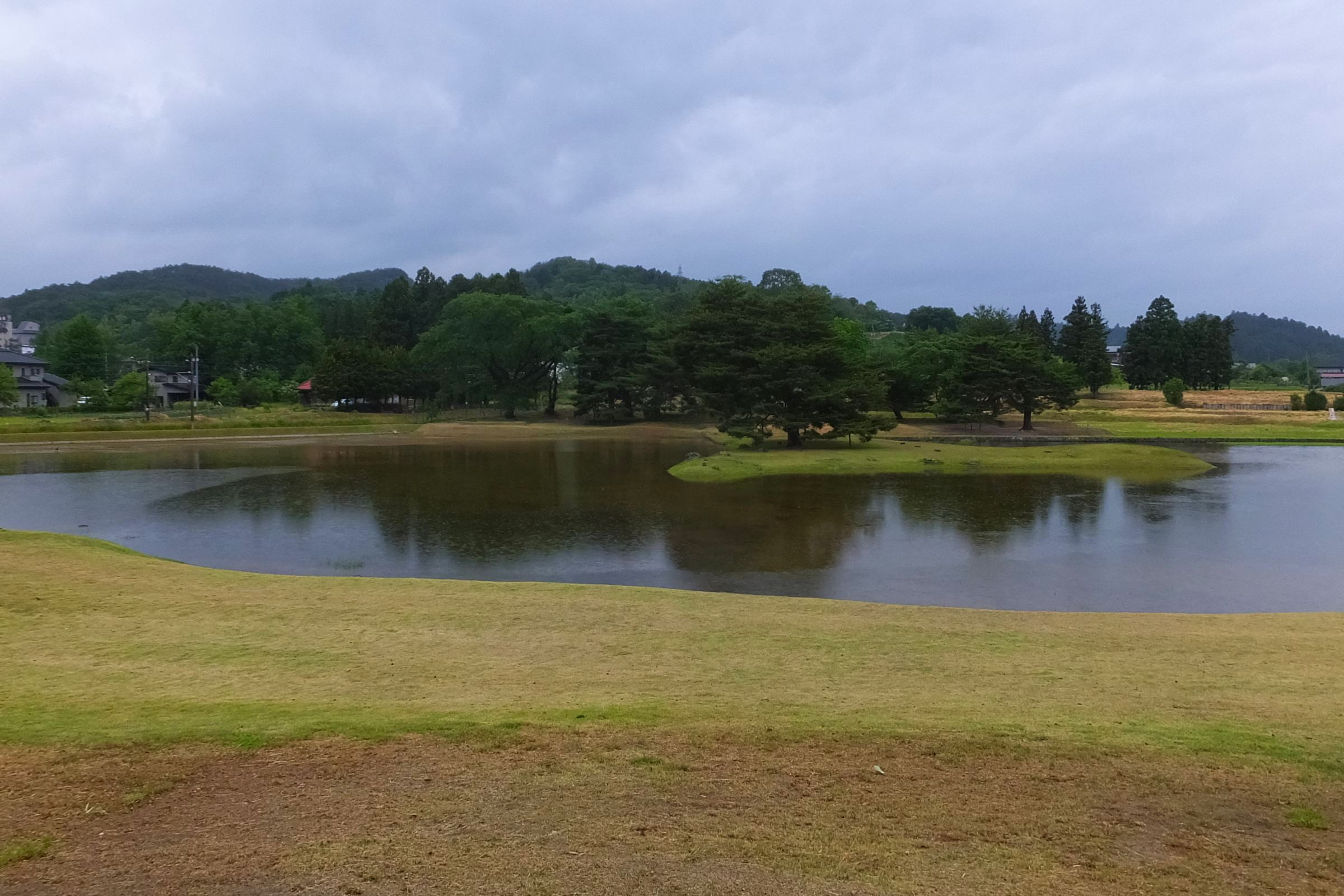 The ruins of Muryōkō-in temple in Hiraizumi, Iwate Prefecture (The ponds filled with water in temporarily.)